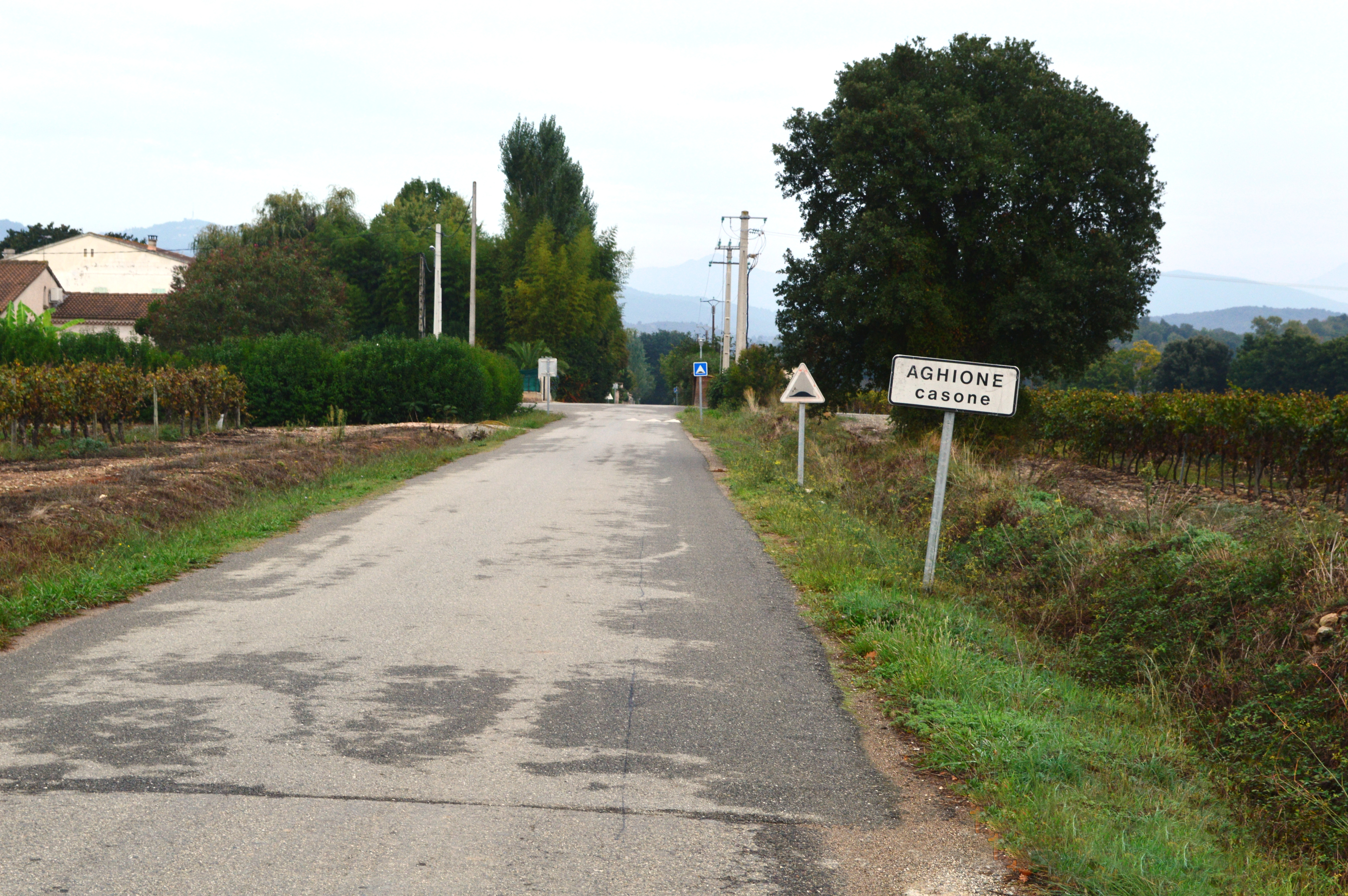 The entry to Aghione